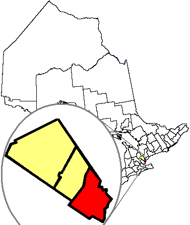 This locator map shows the location of Mississauga in Ontario.